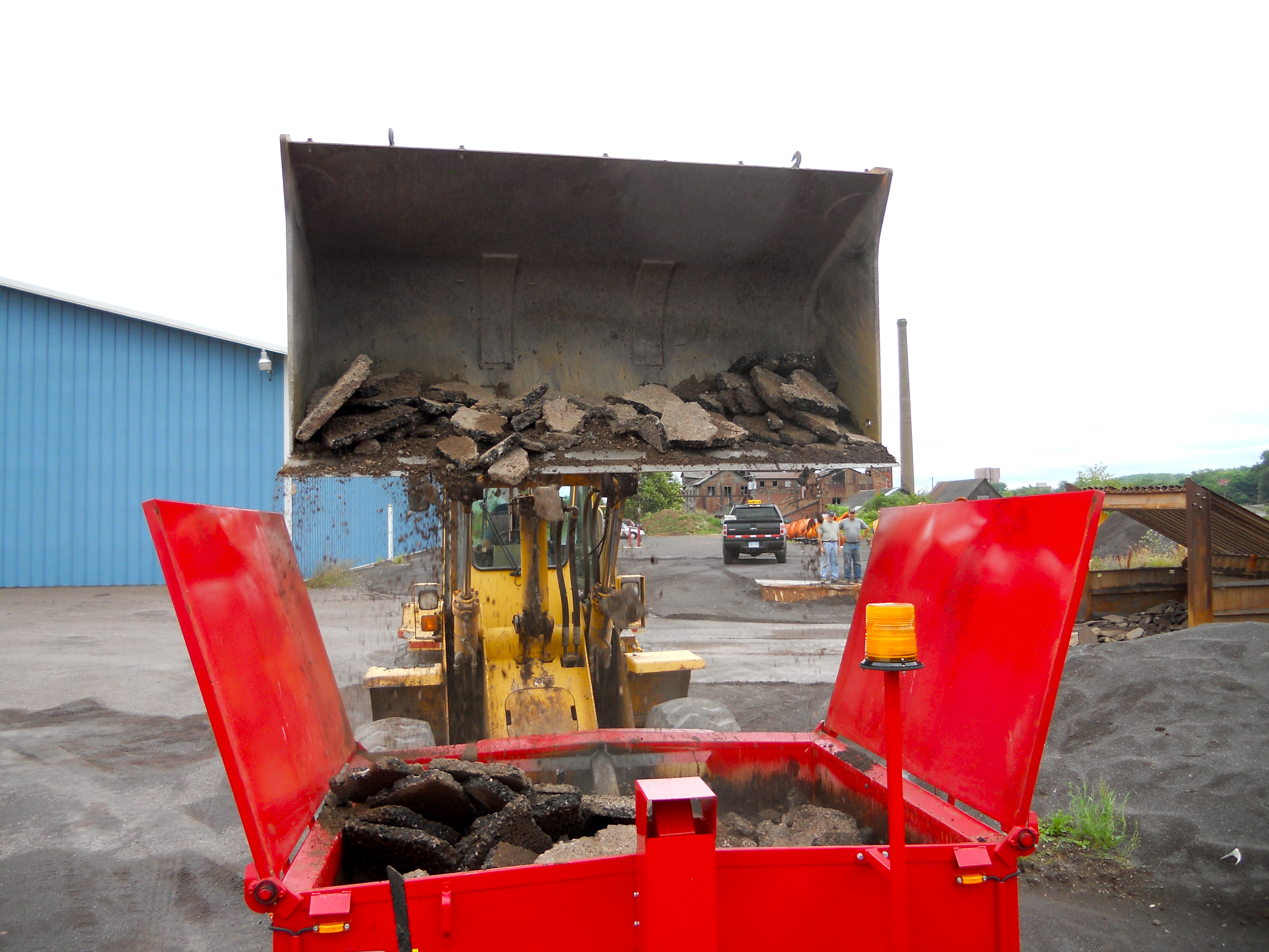 Falcon's asphalt recycler / hot box will recycle asphalt, haul hot mix asphalt and heat cold patch asphalt.